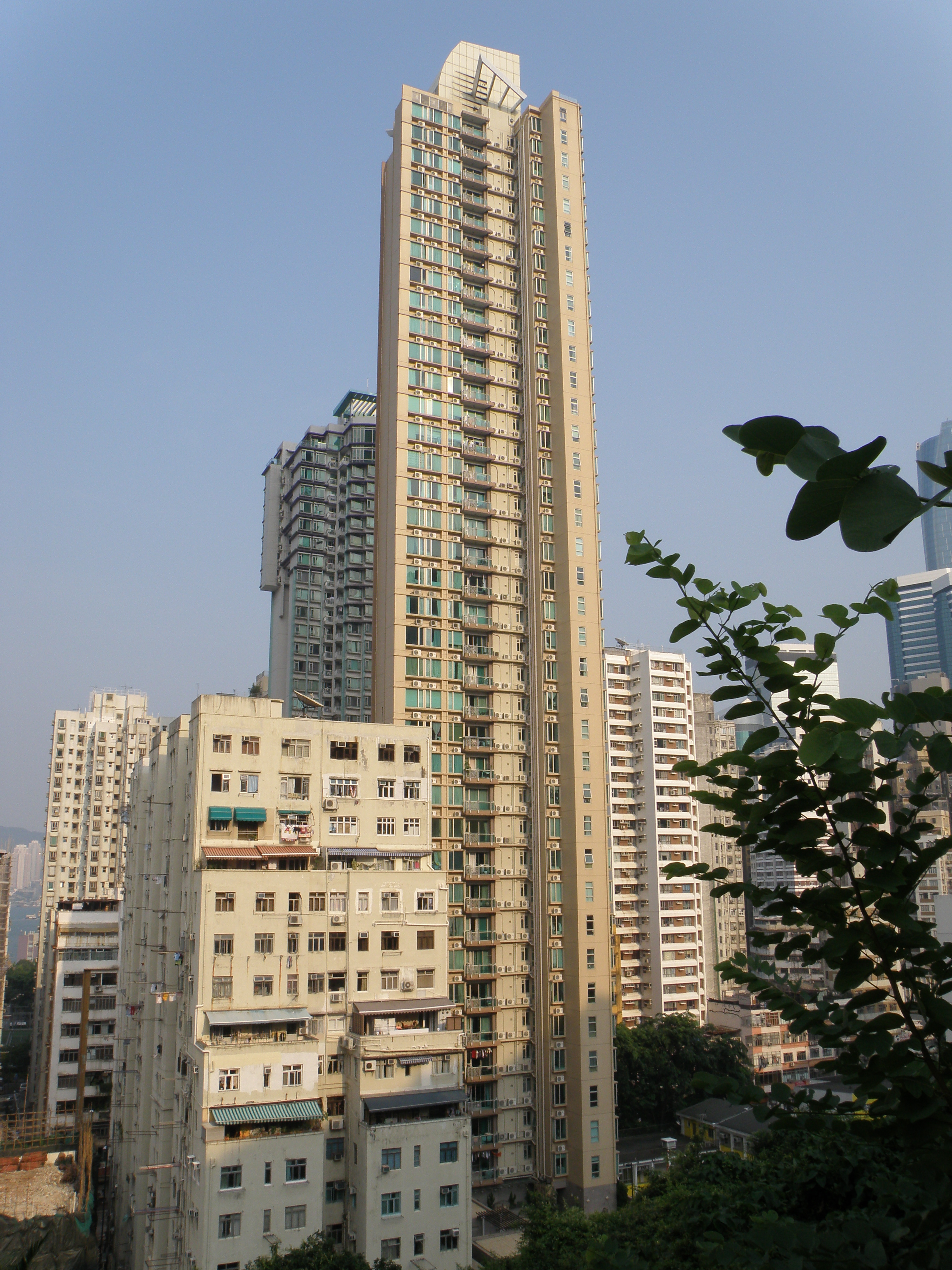 CASA 880 in Quarry Bay, Hong Kong.